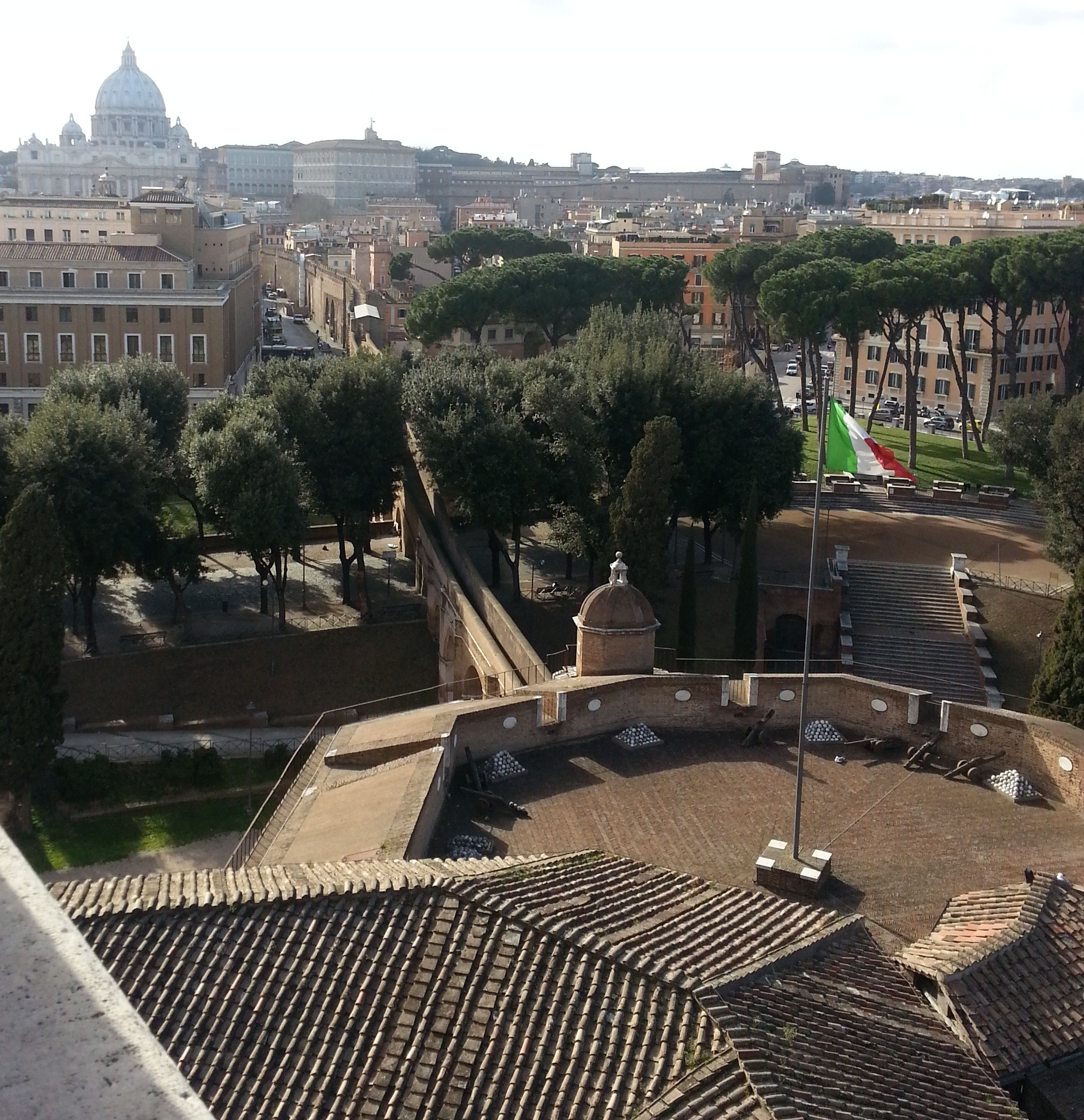 Castel Sant´Angelo and Passetto to Vatican